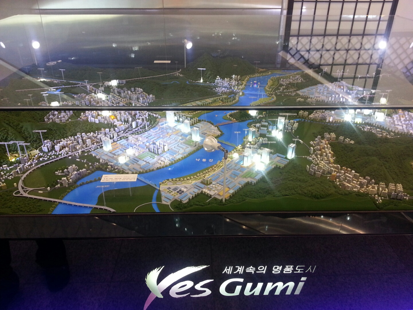 Scale model of 'Gumi, Gyeongsangbuk-do' in Seoul Station